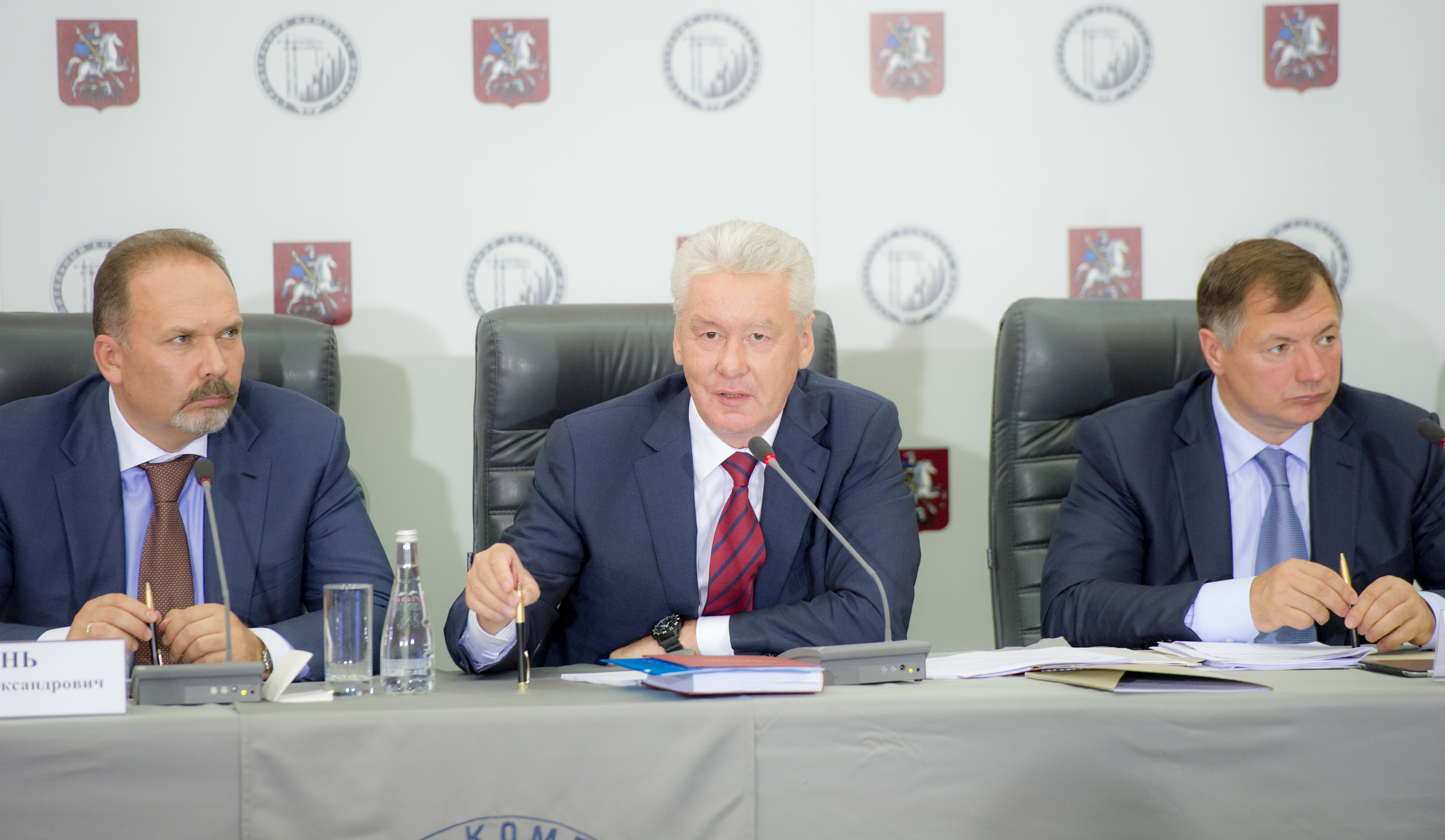 Mikhail Men, Sergey Sobyanin and Marat Khusnullin